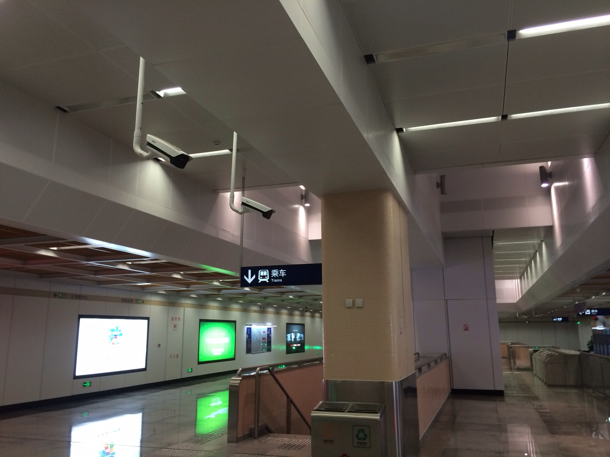 Nanjing Metro line 10 Linjiang Station.